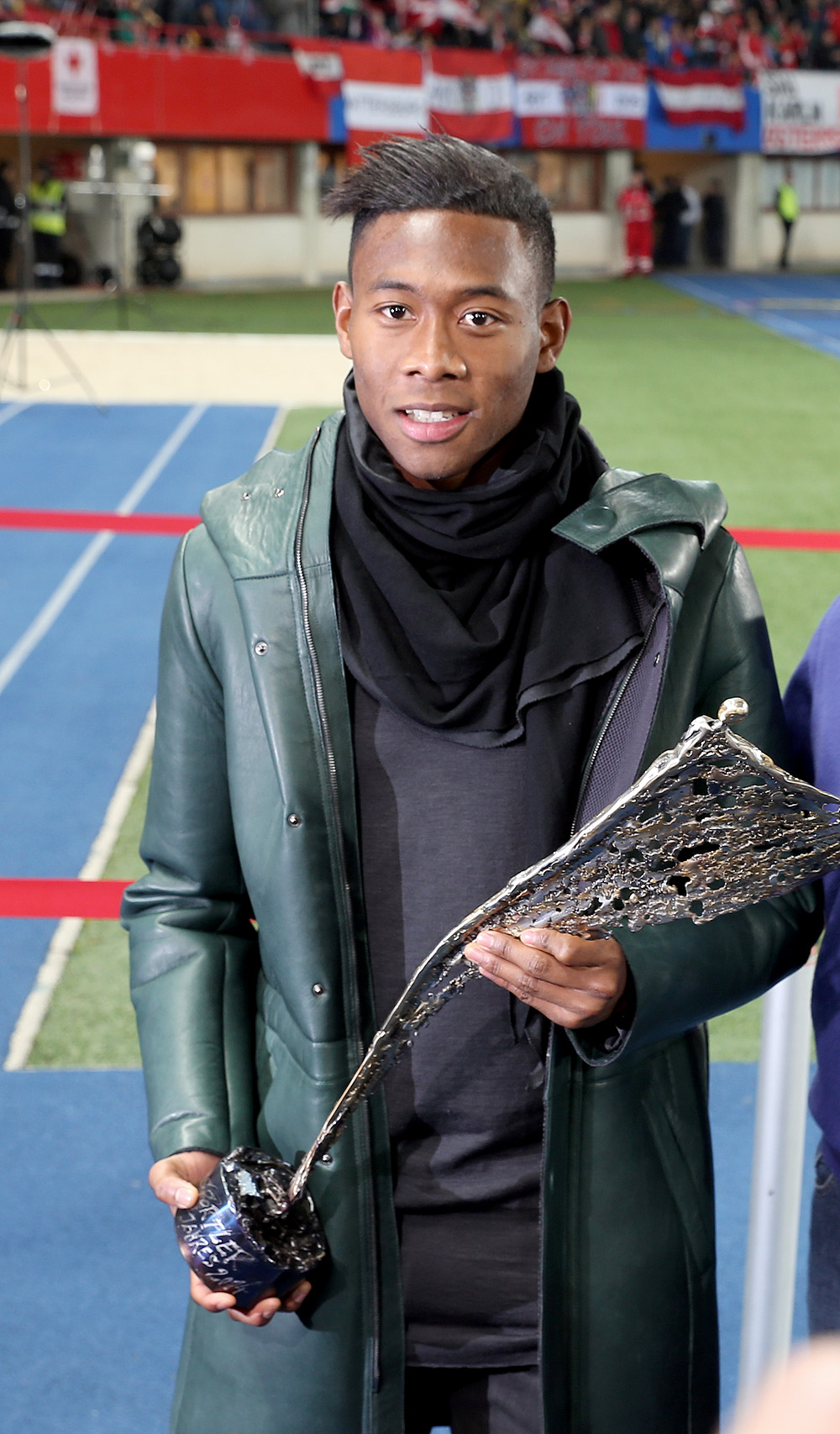 Injured David Alaba at the qualification match for UEFA Euro 2016: Austrian national football team vs. Russian national football team; Ernst-Happel-Stadion in Vienna, Austria.